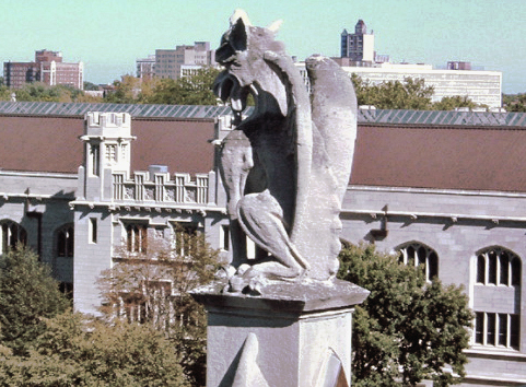 Anatomy grotesque and Bartlett building at the University of Chicago. Taken by James Waters (A.B., University of Chicago, 2005) in 2004.